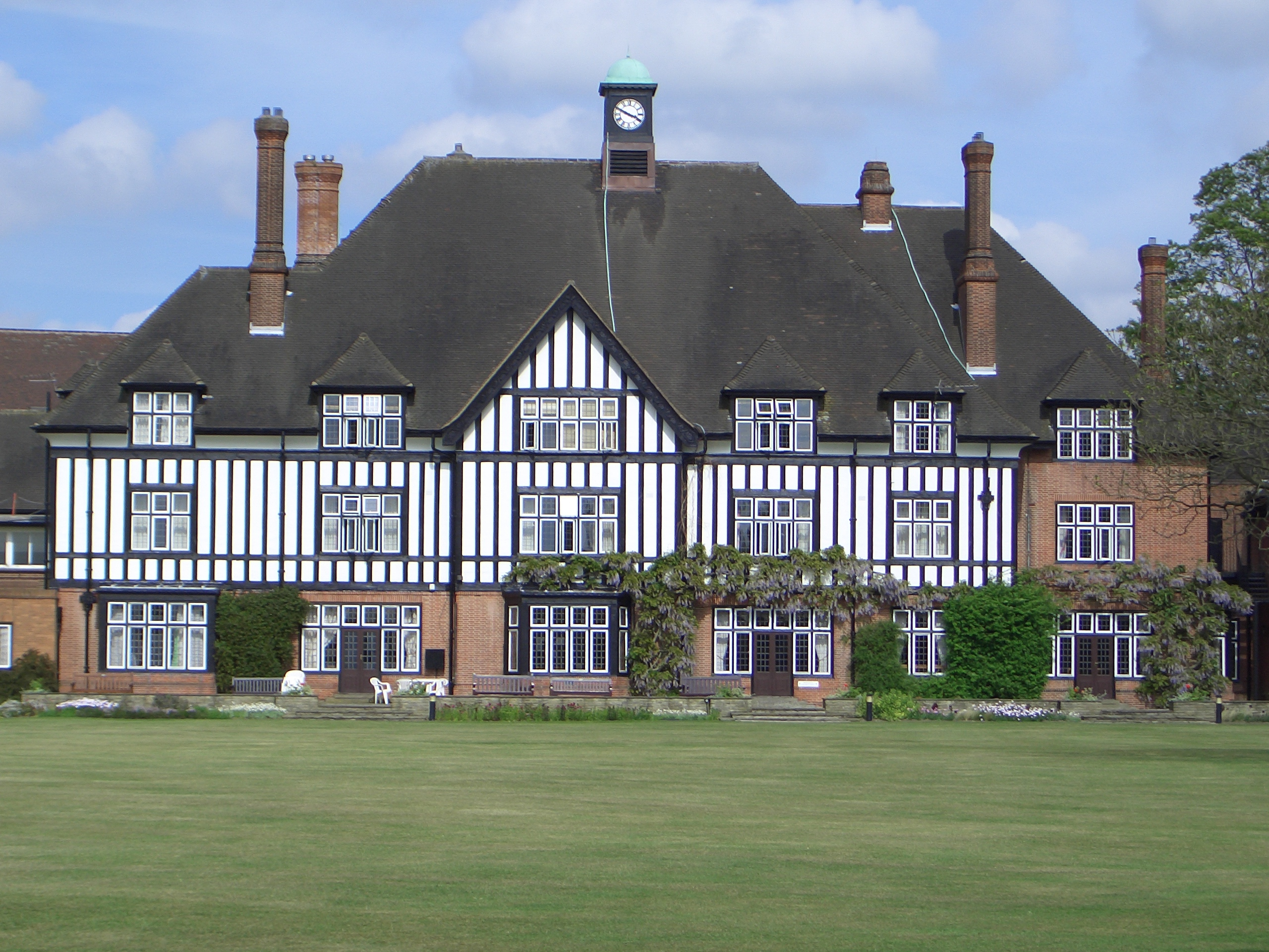 Picture of Queenswood School, Hatfield